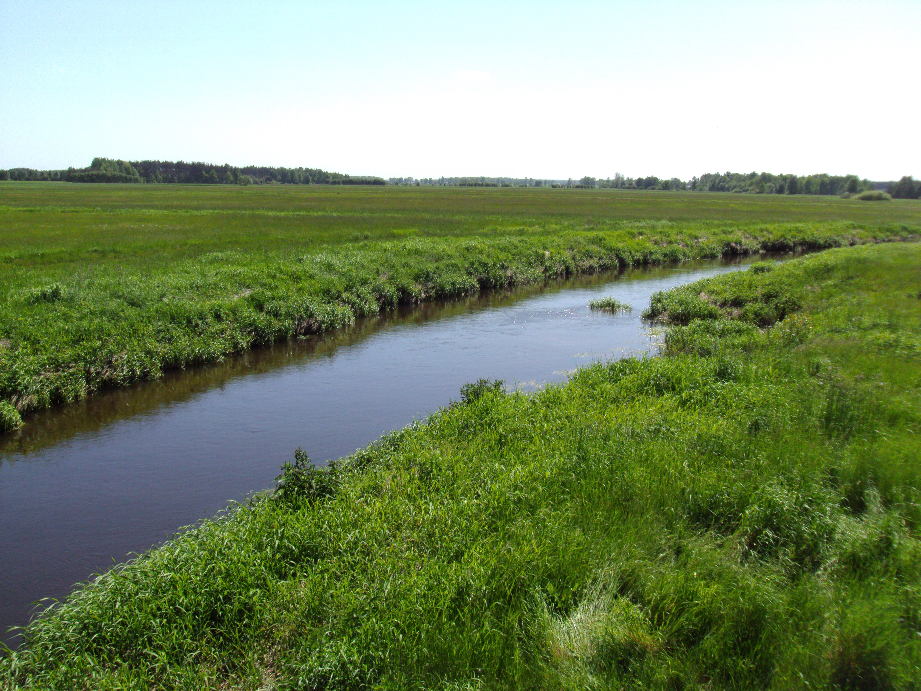 Liswarta w Stanach. Widok w kierunku południowym.